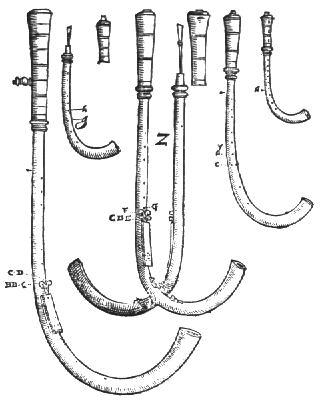 Crumhorn